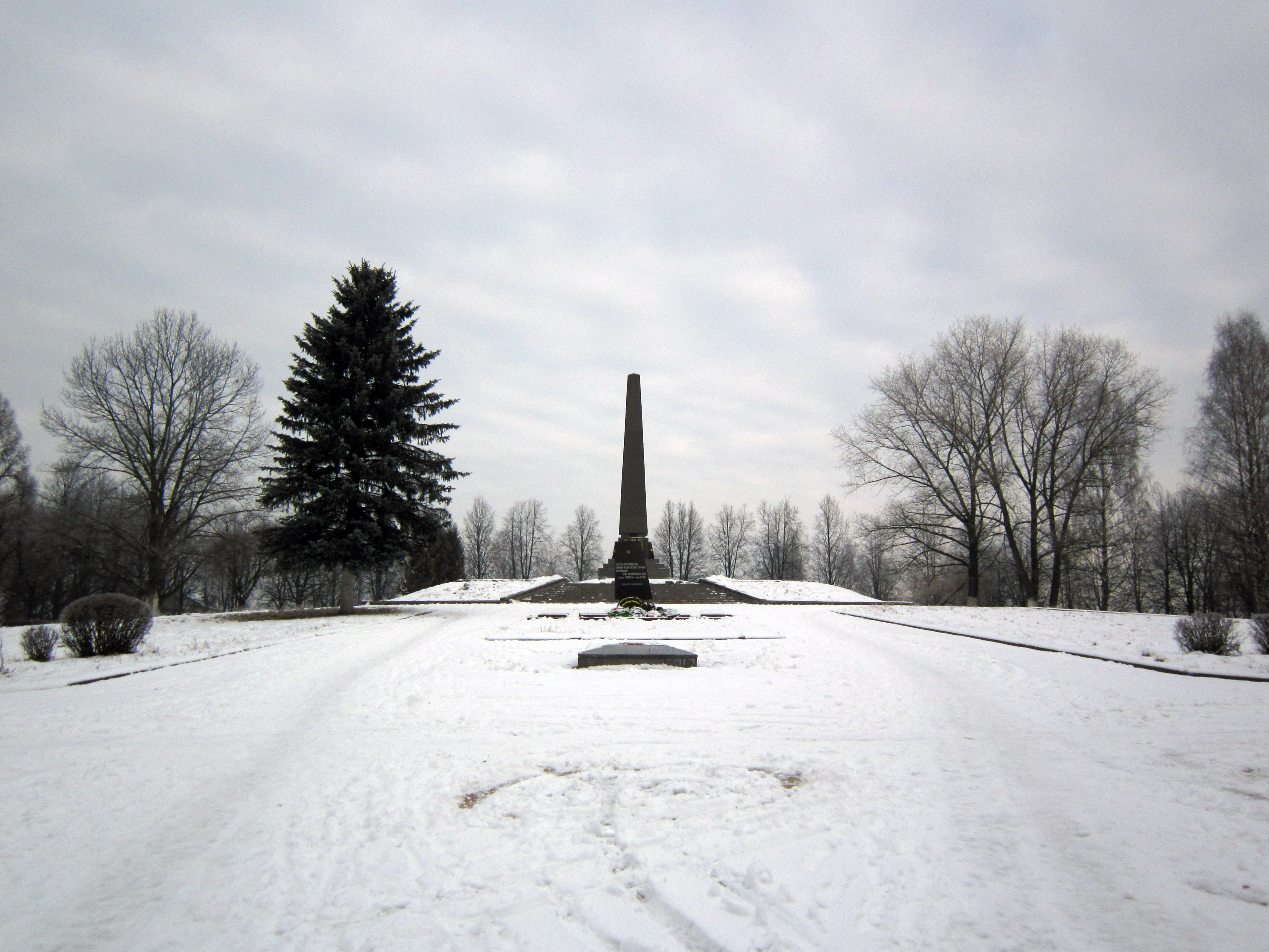 Memorial of victims of Maly Trastsianets extermination camp